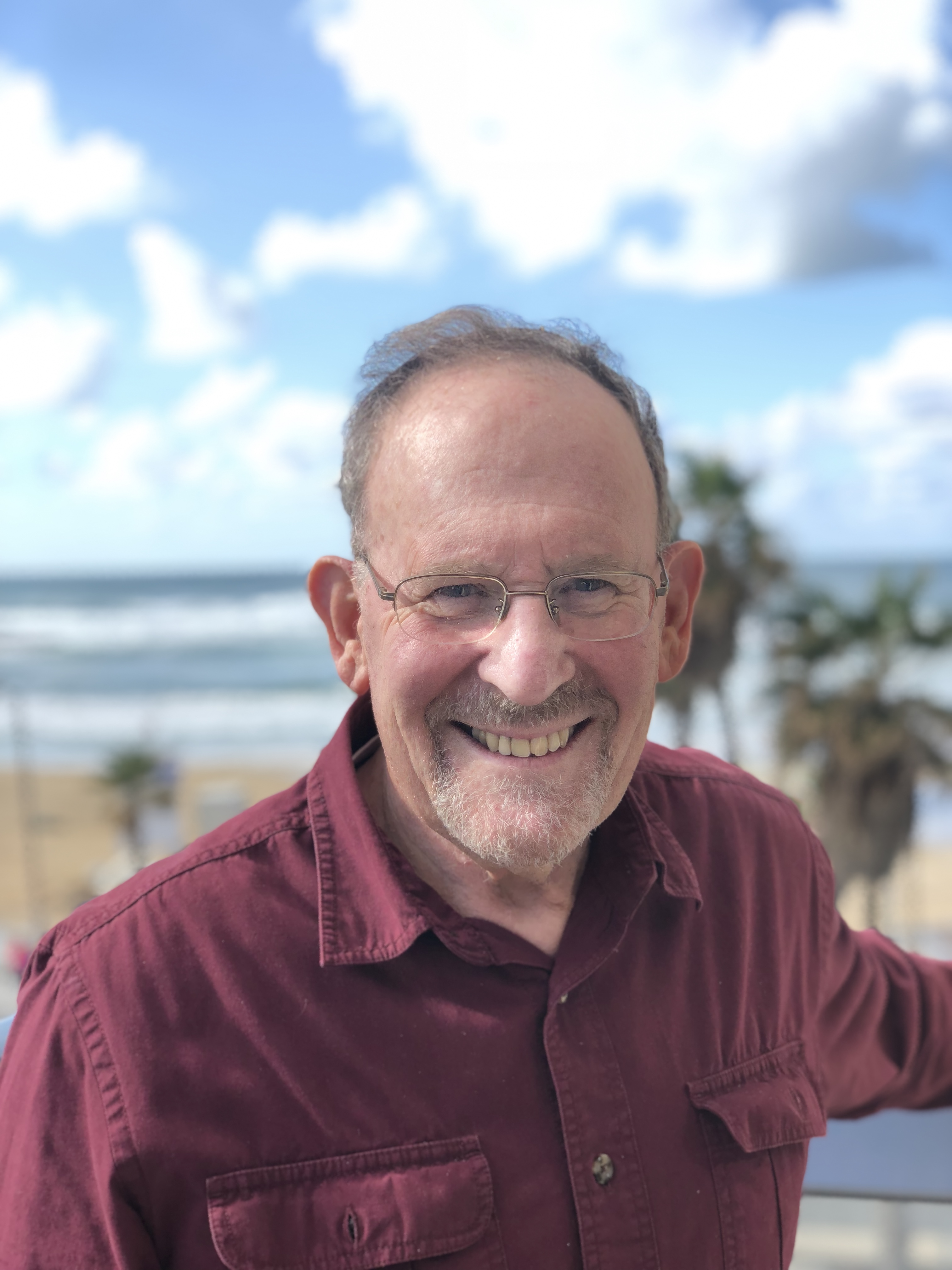 Portrait of Zvi Gitelman